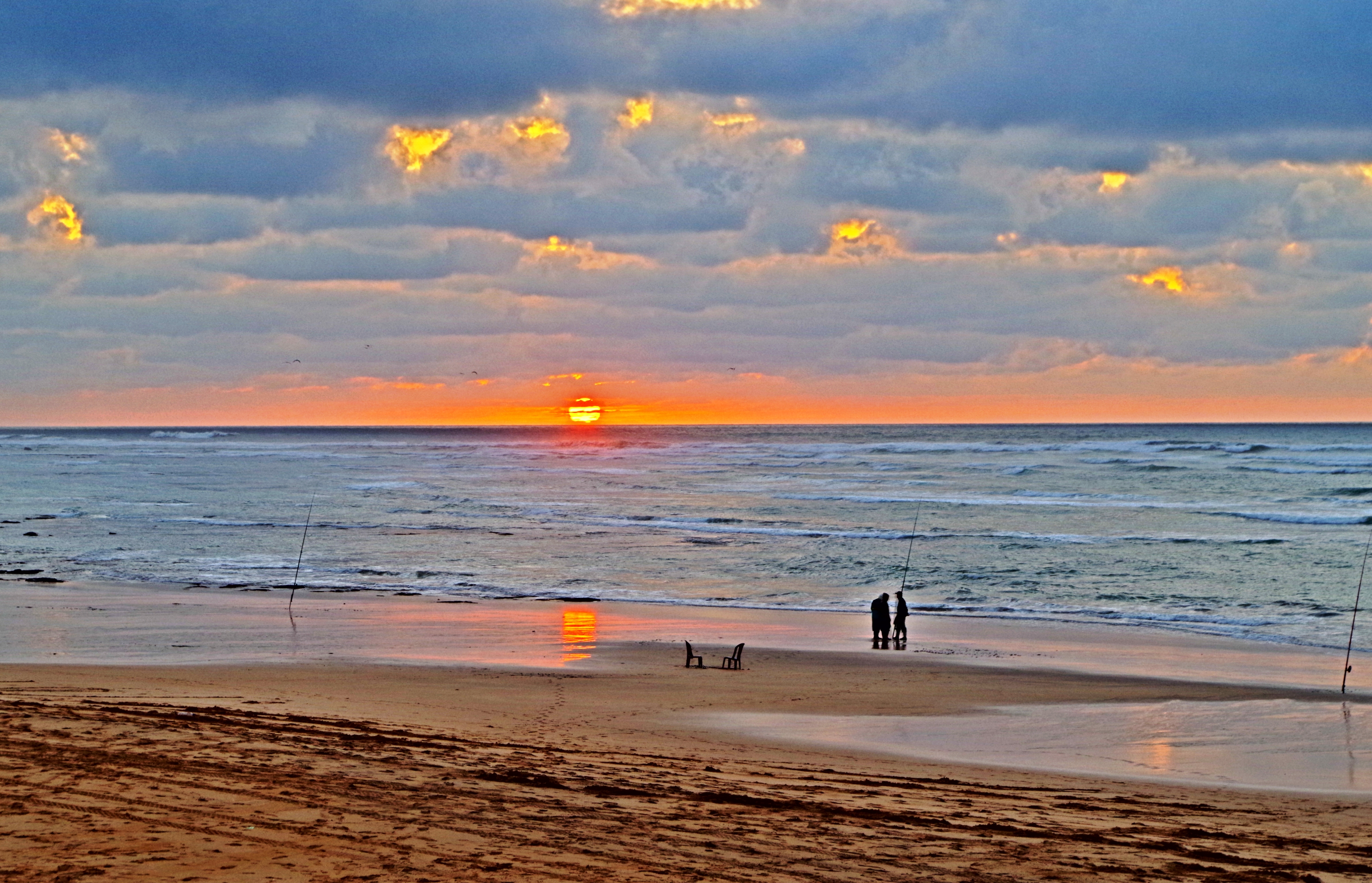 Sunset on Tamaris beach